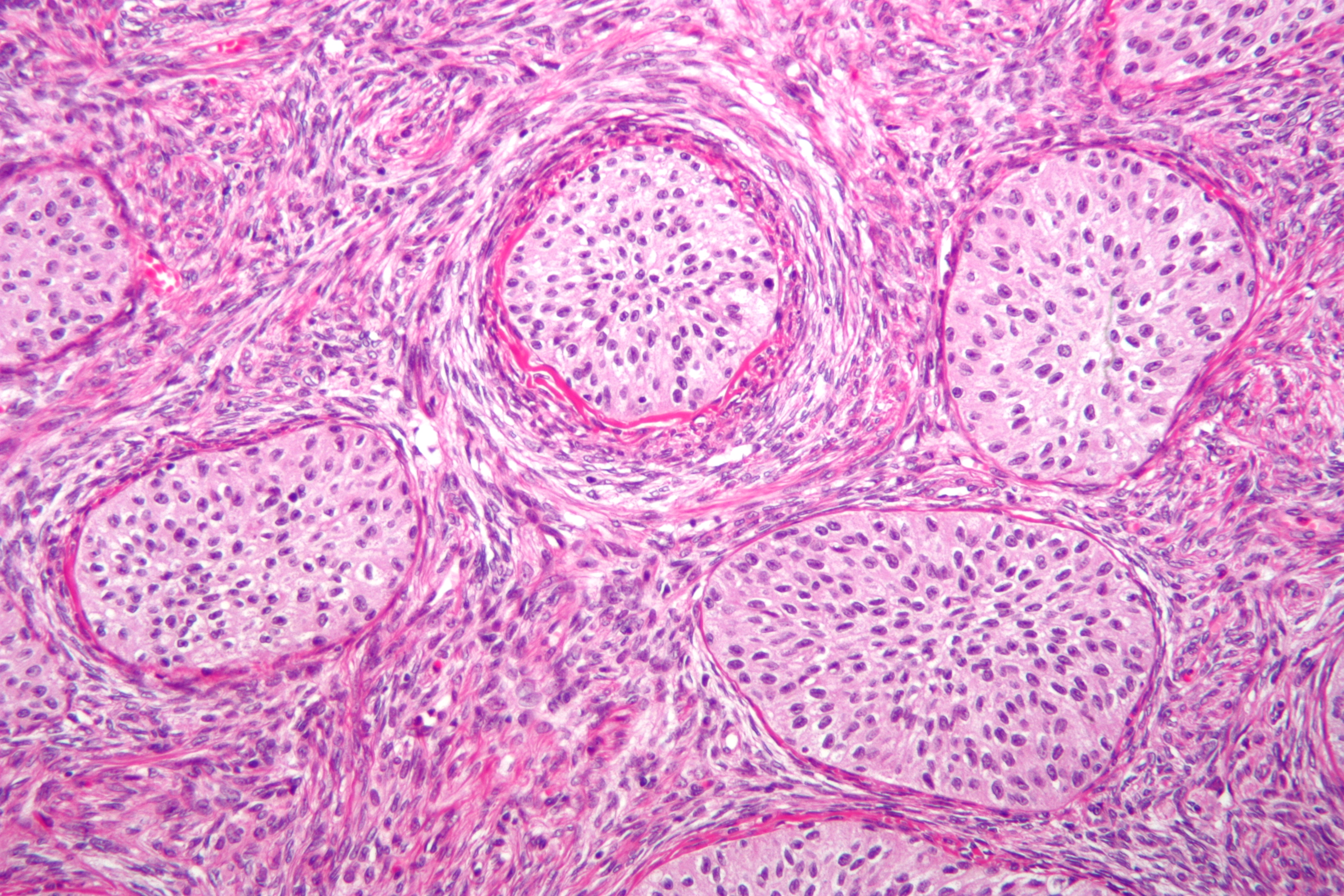 Intermediate magnification micrograph of a Brenner tumour. H&E stain. Original magnification 200X. These tumours are thought to arise from Walthard cell rests. On high magnification, they exhibit characteristic coffee bean nuclei (clearly visible in image). On low magnification, they resemble urothelial cell nests. Related images High mag. (cropped) High mag. Intermed. mag. Low mag. Intermed. mag. High mag.